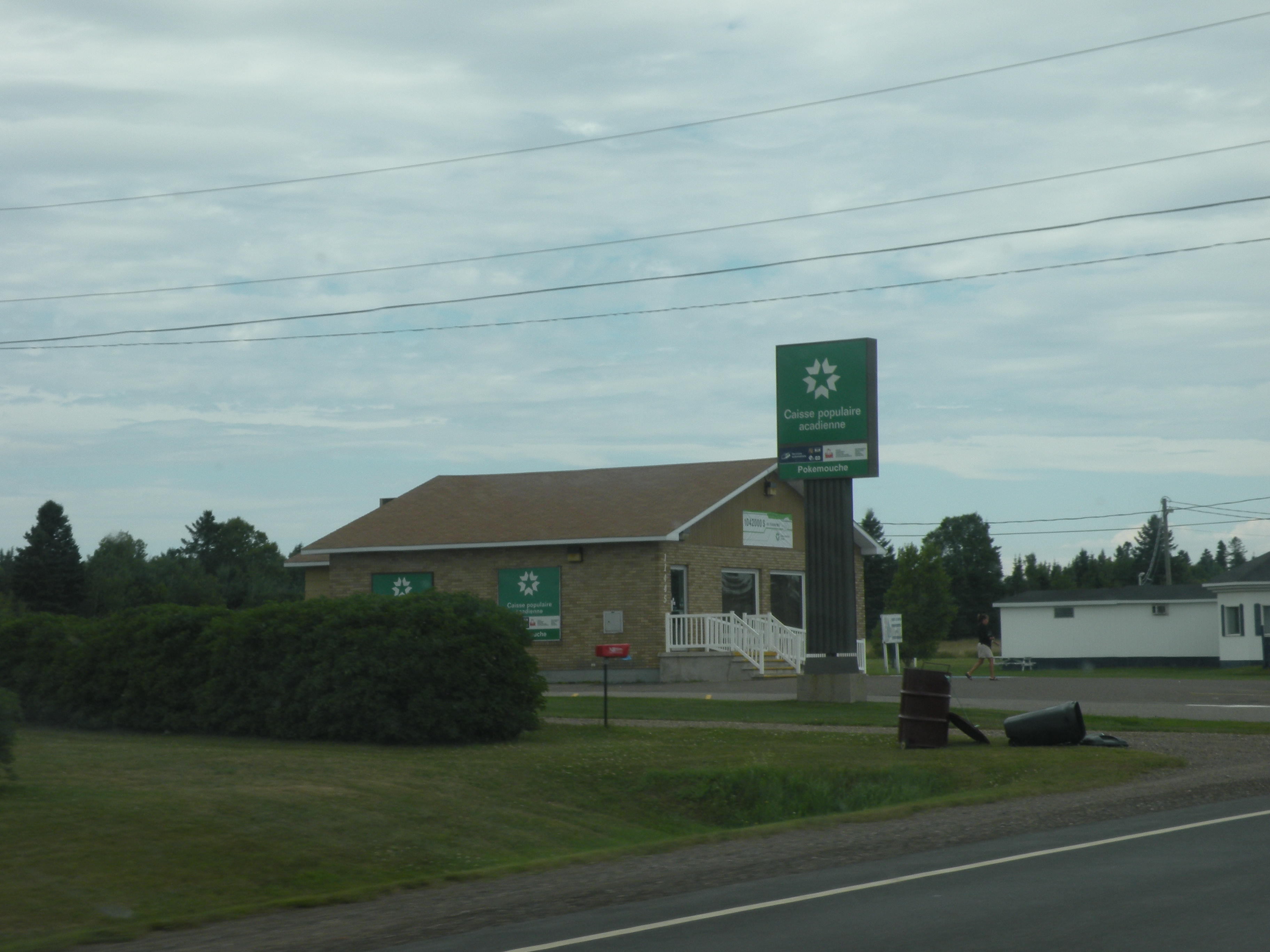 Credit union in Pokemouche, New Brunswick, Canada.